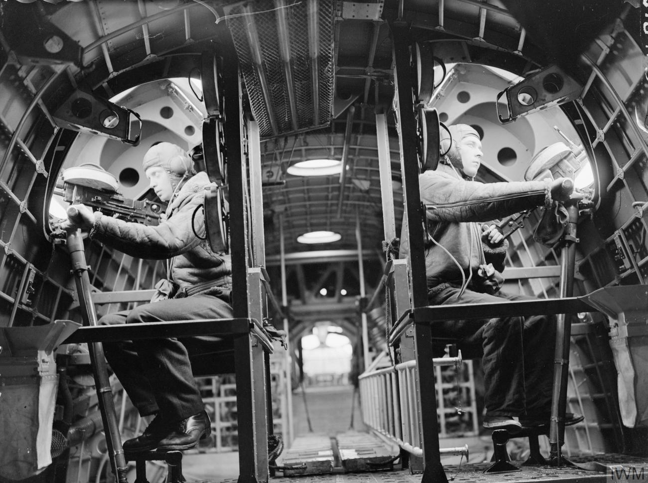 Royal Air Force Coastal Command, 1939-1945. Two gunners in Short Sunderland Mark I, N9027, of No. 210 Squadron RAF based at Oban, Argyll, sit at their positions with .303 Vickers K-type machine guns, mounted in the upper fuselage hatches.